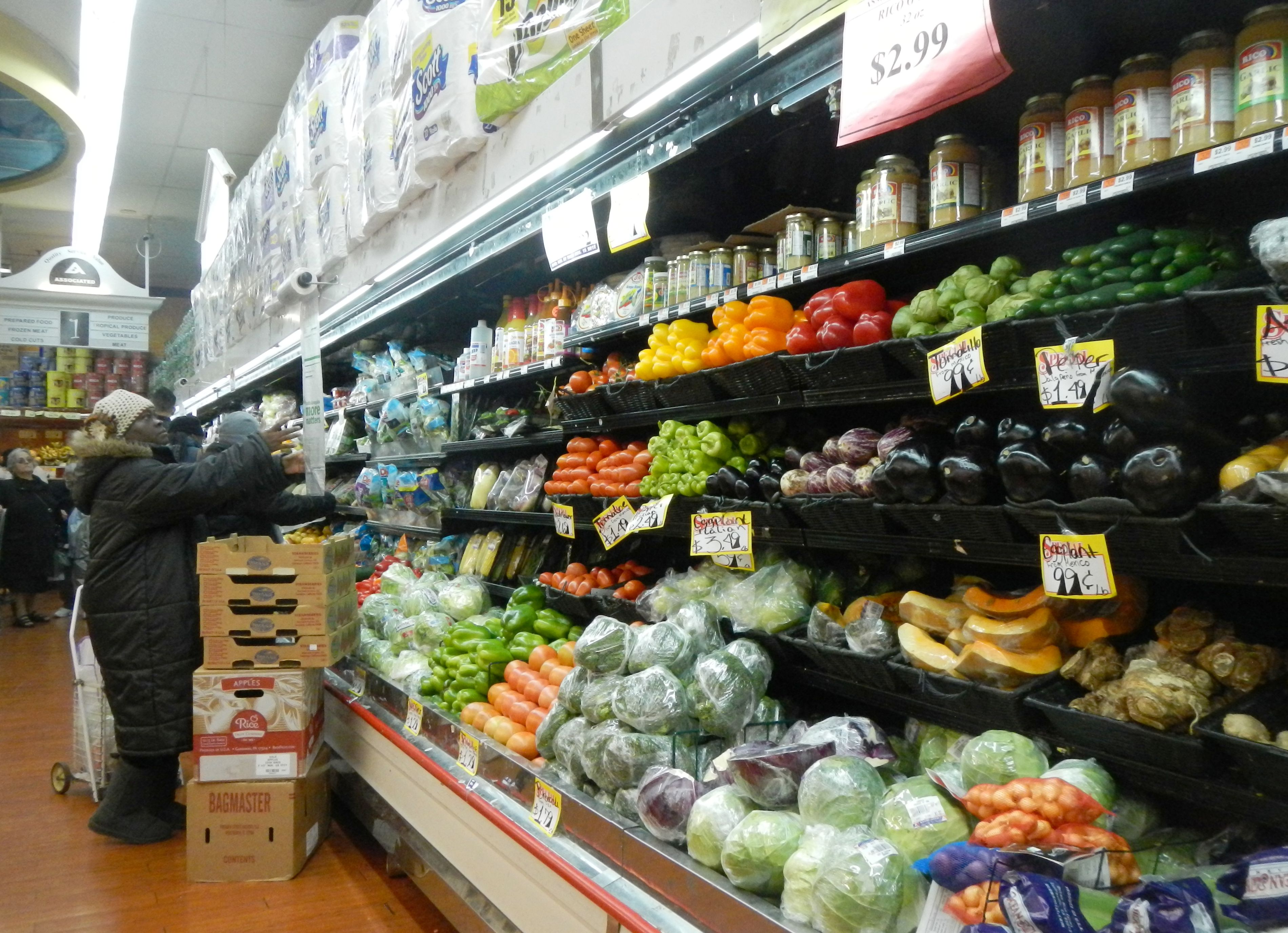 Looking northeast in veggie aisle of grocery.